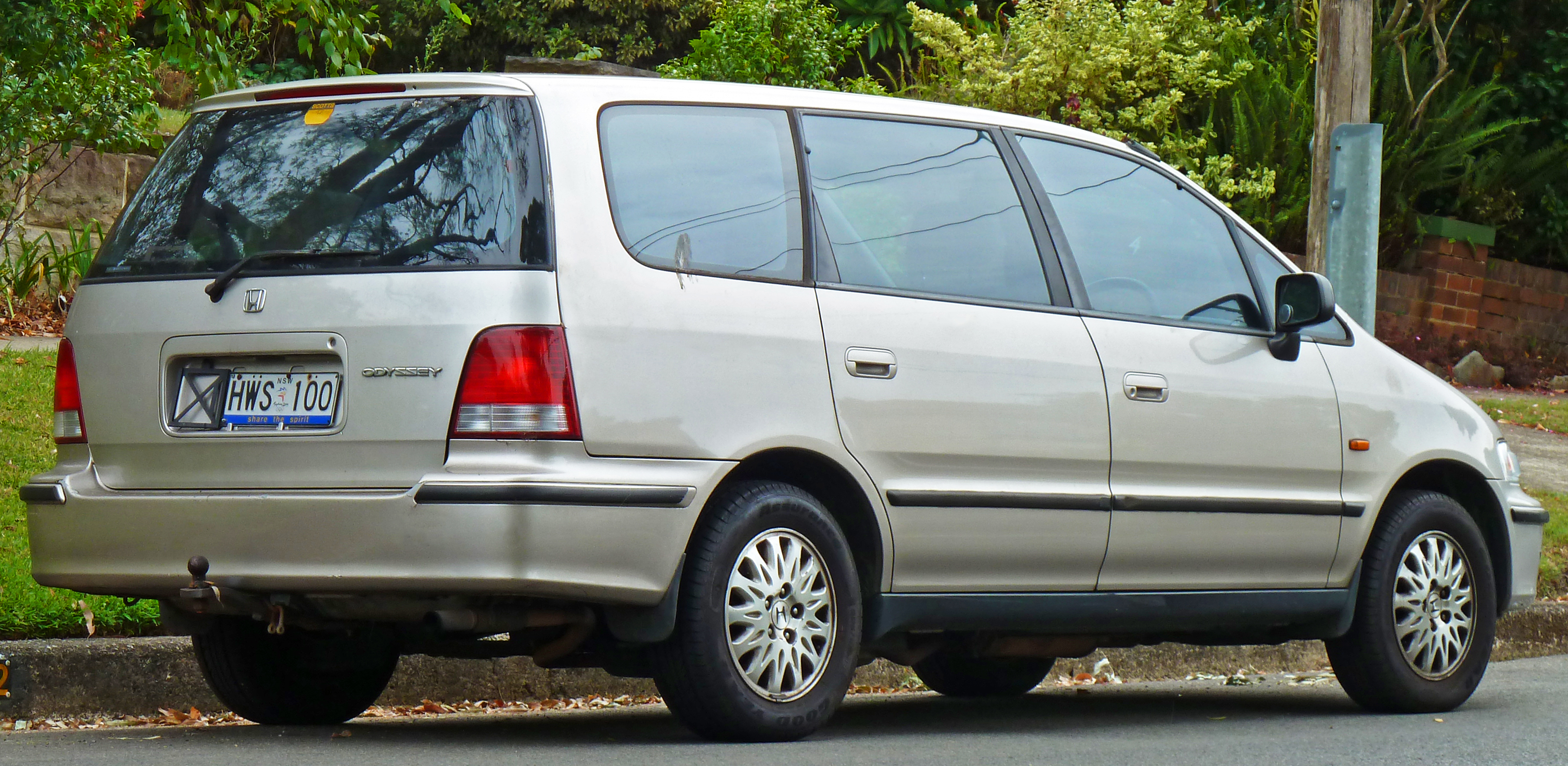 1998–2000 Honda Odyssey van. Photographed in Roseville, New South Wales, Australia.